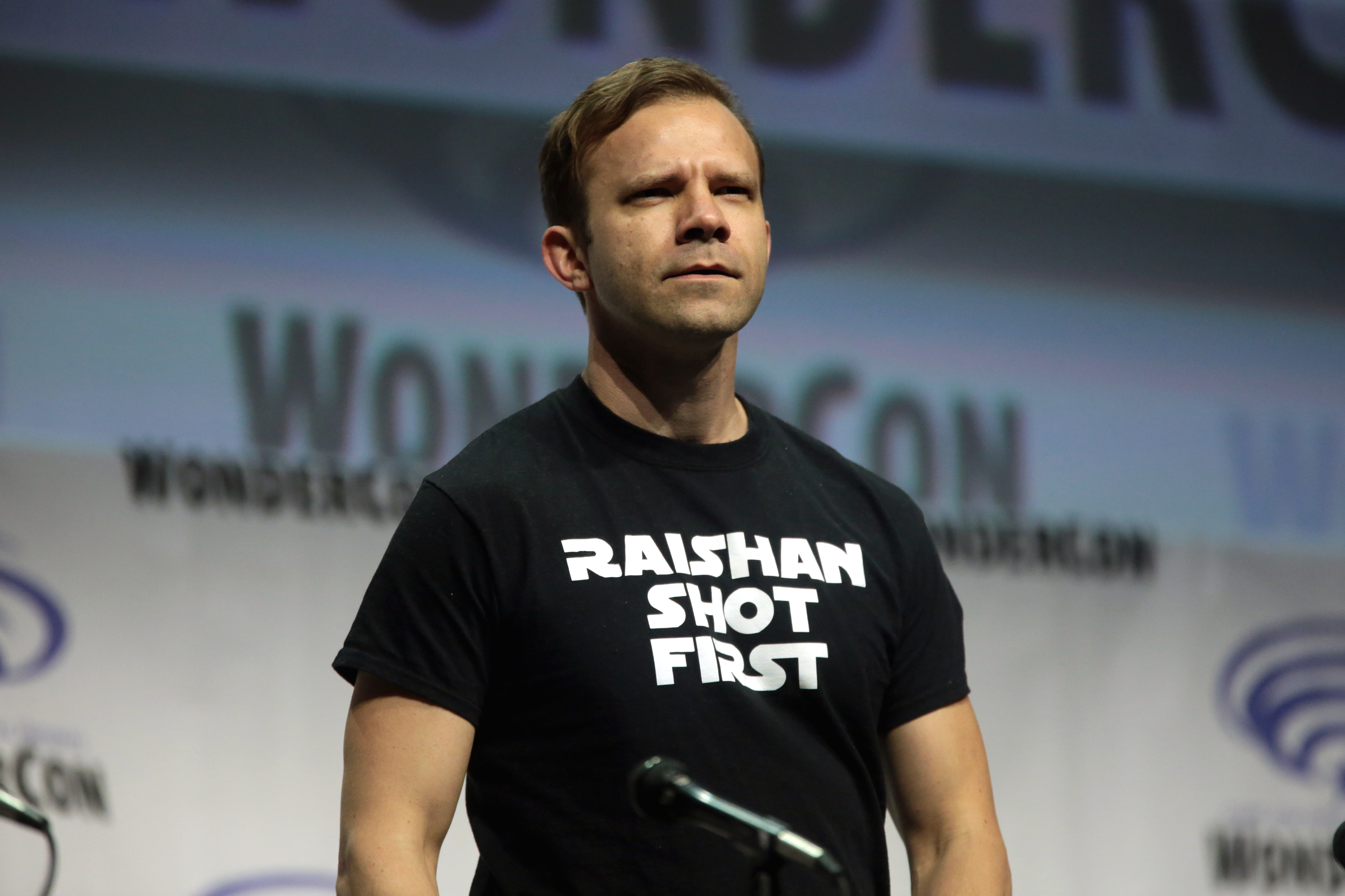 Liam O'Brien speaking at the 2017 WonderCon at the Anaheim Convention Center in Anaheim, California.